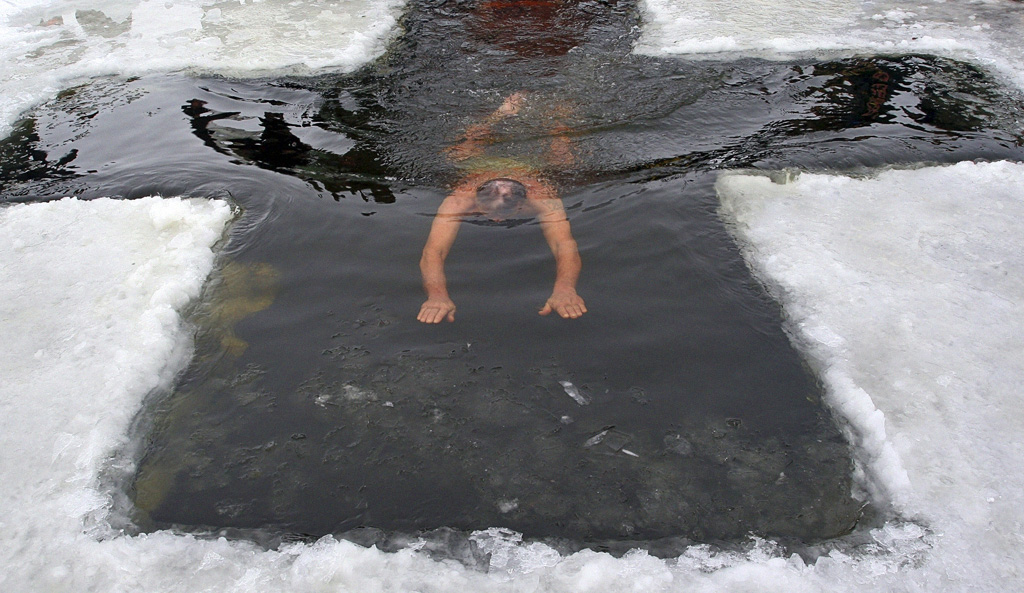 “Epiphany bathing”. Epiphany bathing in Kazan